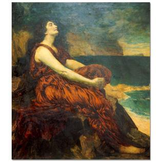 Branwen Location of the painting: Glynn Vivian Art Gallery (Swansea, Wales)